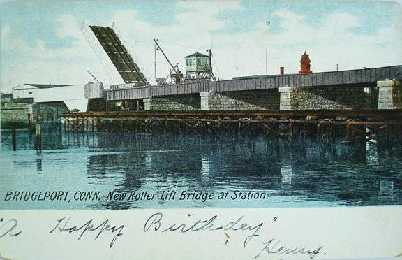 Undivided-back postcard of the roller lift bridge carrying the New Haven Railroad over the Pequonnock River in Bridgeport, Connecticut. The rear showed a September 1909 postmark with the exact date illegible. Caption: "BRIDGEPORT, CONN. New Roller Lift Bridge at Station" On address side, along left side: United Art Publishing Co. No. 542 (Made in Germany)"